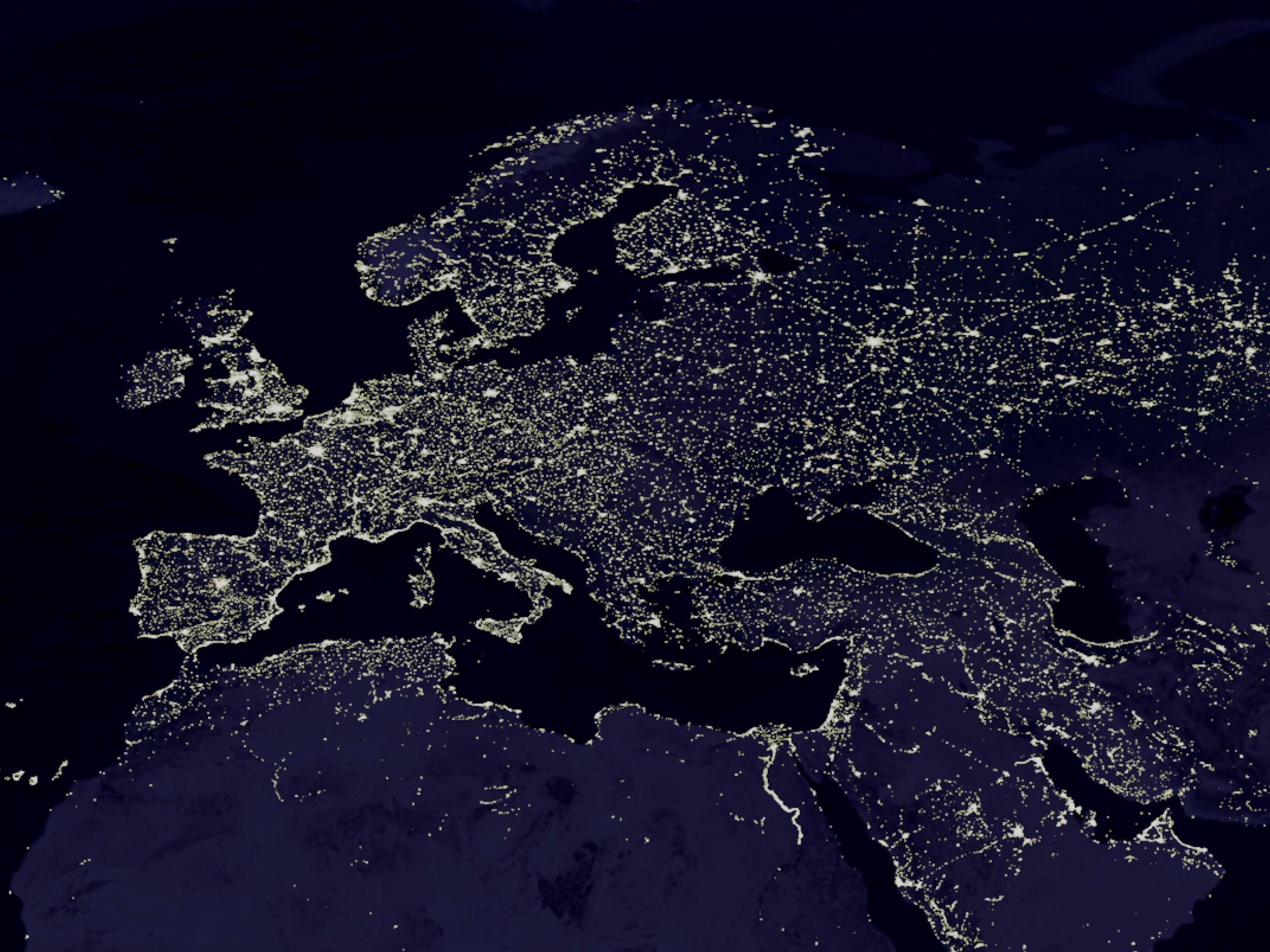 Human-made lights highlight particularly developed or populated areas of the Earths surface, including the seaboards of Europe.